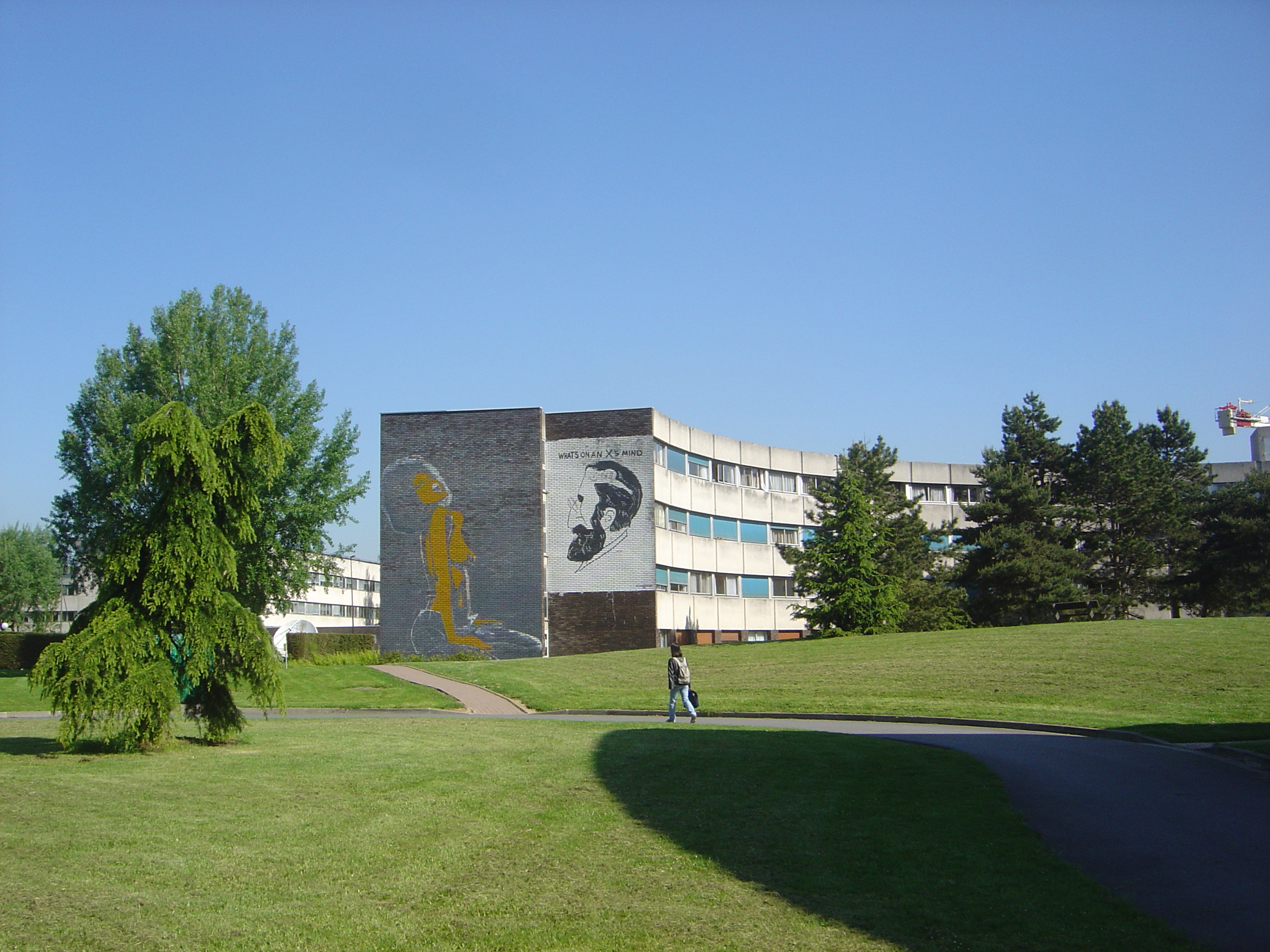 Dorms at École Polytechnique before renovation works (which took place from 2006 to 2011).